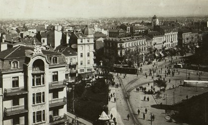 Bulgaria